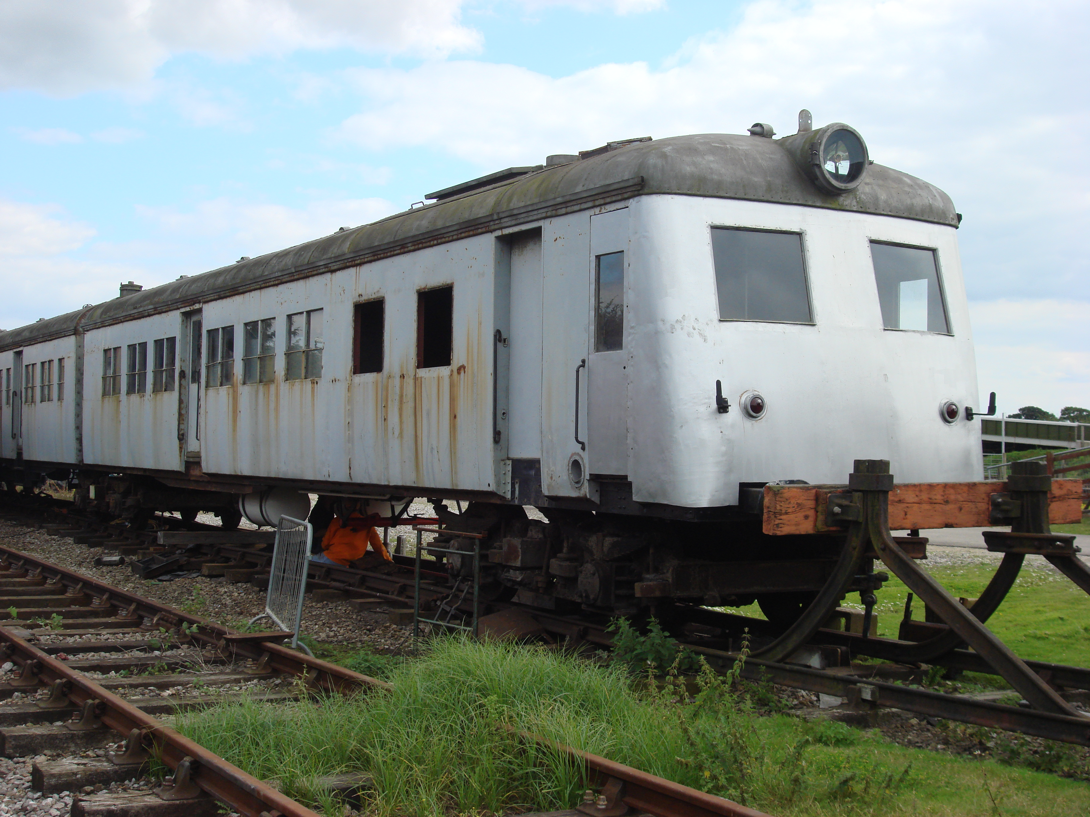 Sentinel-Cammell Egyptian National Railways 3 car articulated Steam Railcar No. 5208 at the Buckinghamshire Railway Centre